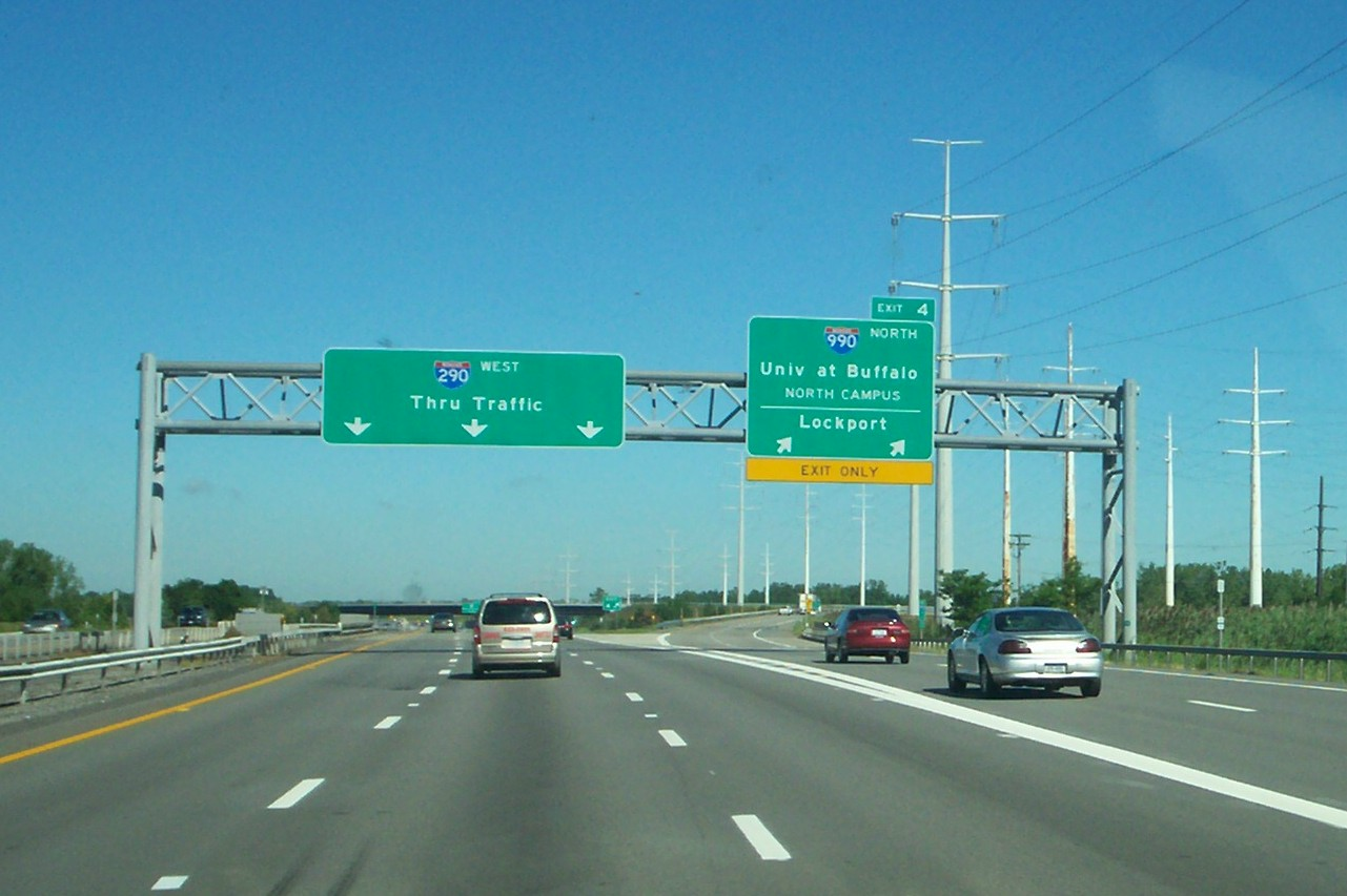 Interstate 290 (New York) exit 4 as viewed from I-290 westbound. Also visible to the north (right) of the expressway are the groups of power lines that help to give I-290 the unofficial nickname "The Power Line Expressway".